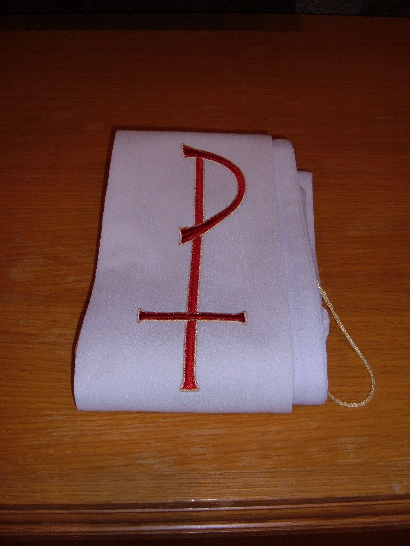 Folded Catholic stole on an altar.